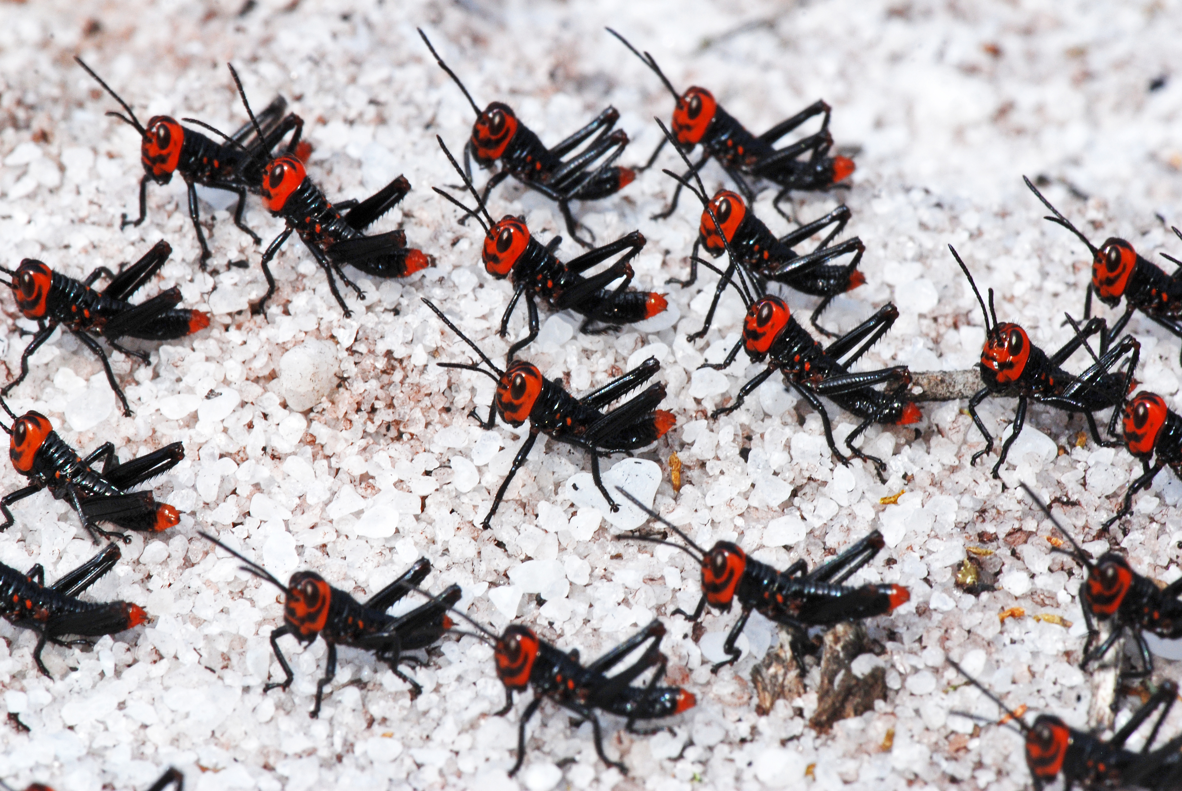 Soldier Grasshopper Nymphs (Chromacris speciosa), Paulo César Vinha State Park, Espírito Santo.